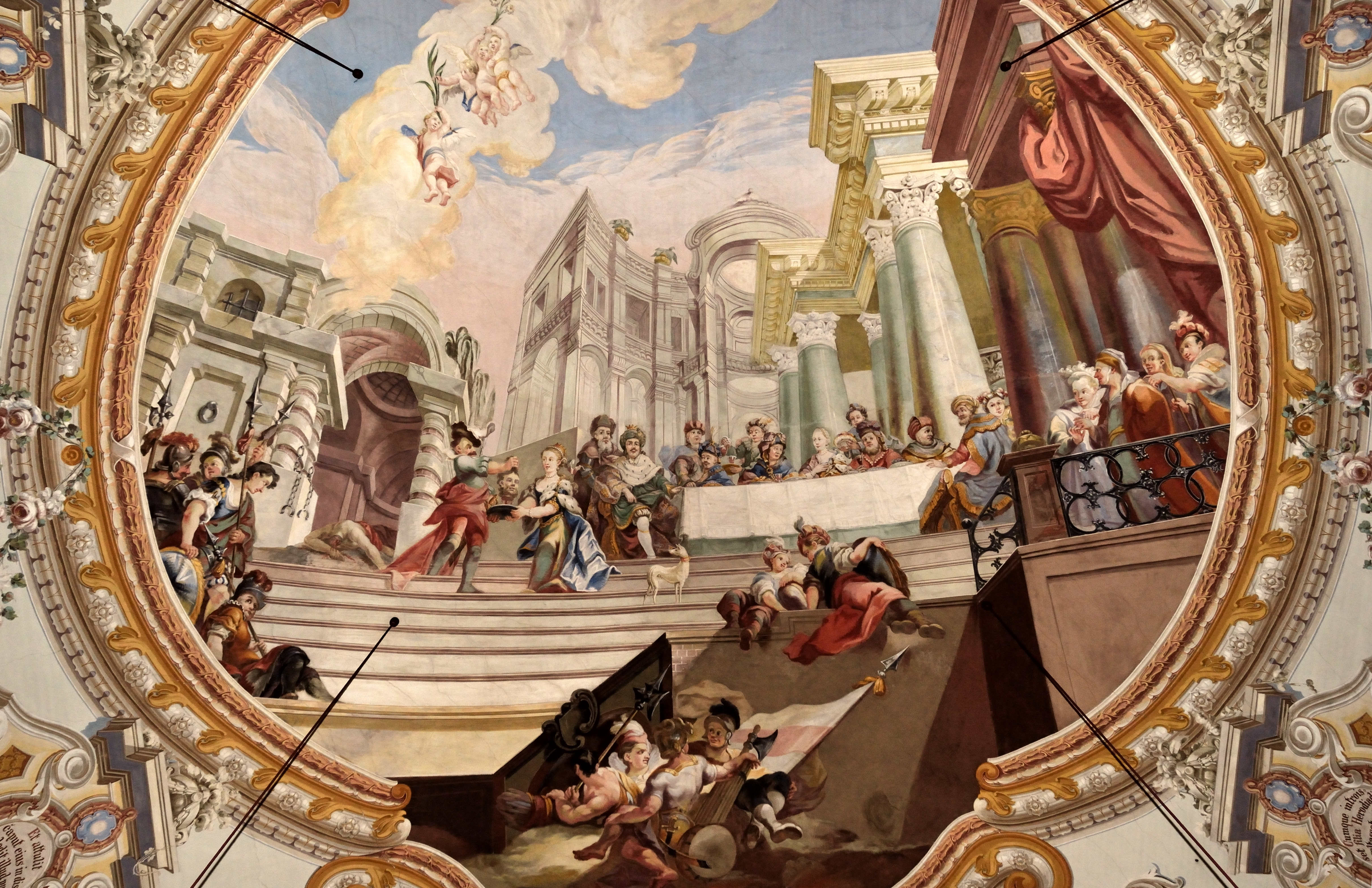 The parish church Saint John the Baptist (hl. Johannes der Täufer) in Ried im Zillertal, Tyrol, was built in 1773-79 and is protected as a cultural heritage monument. The fresco on the ceiling was created by Anton and Josef Schmutzer, as well as Franz Hueber from Innsbruck. It was painted in 1778.